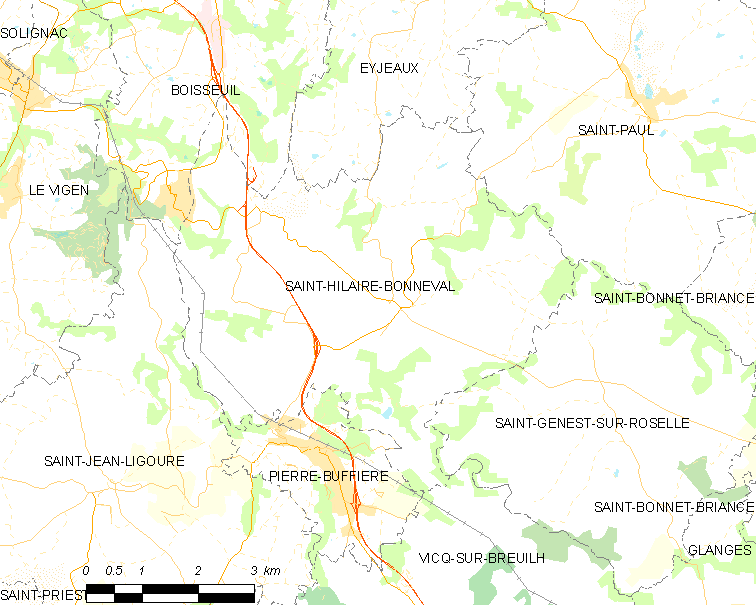 Map of French municipality Saint-Hilaire-Bonneval